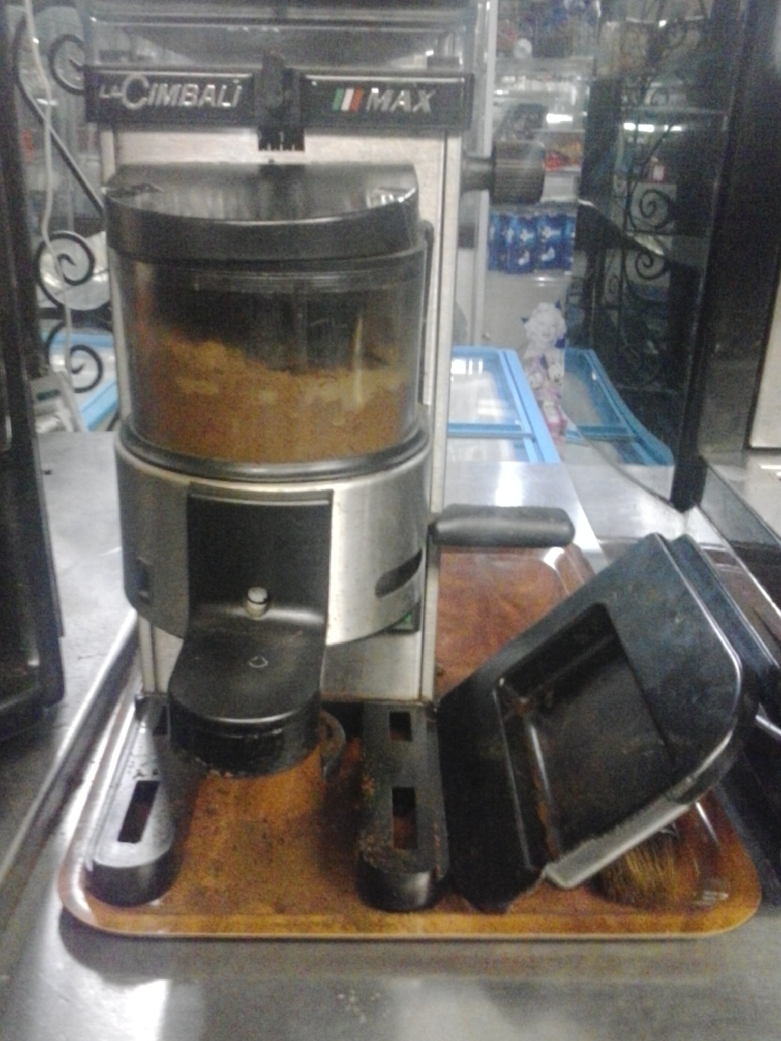 Coffee grinders